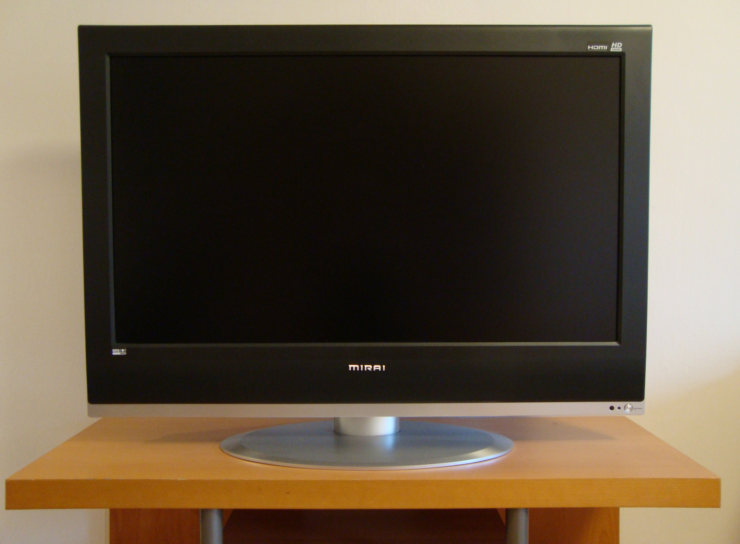 An LCD display from Mirai